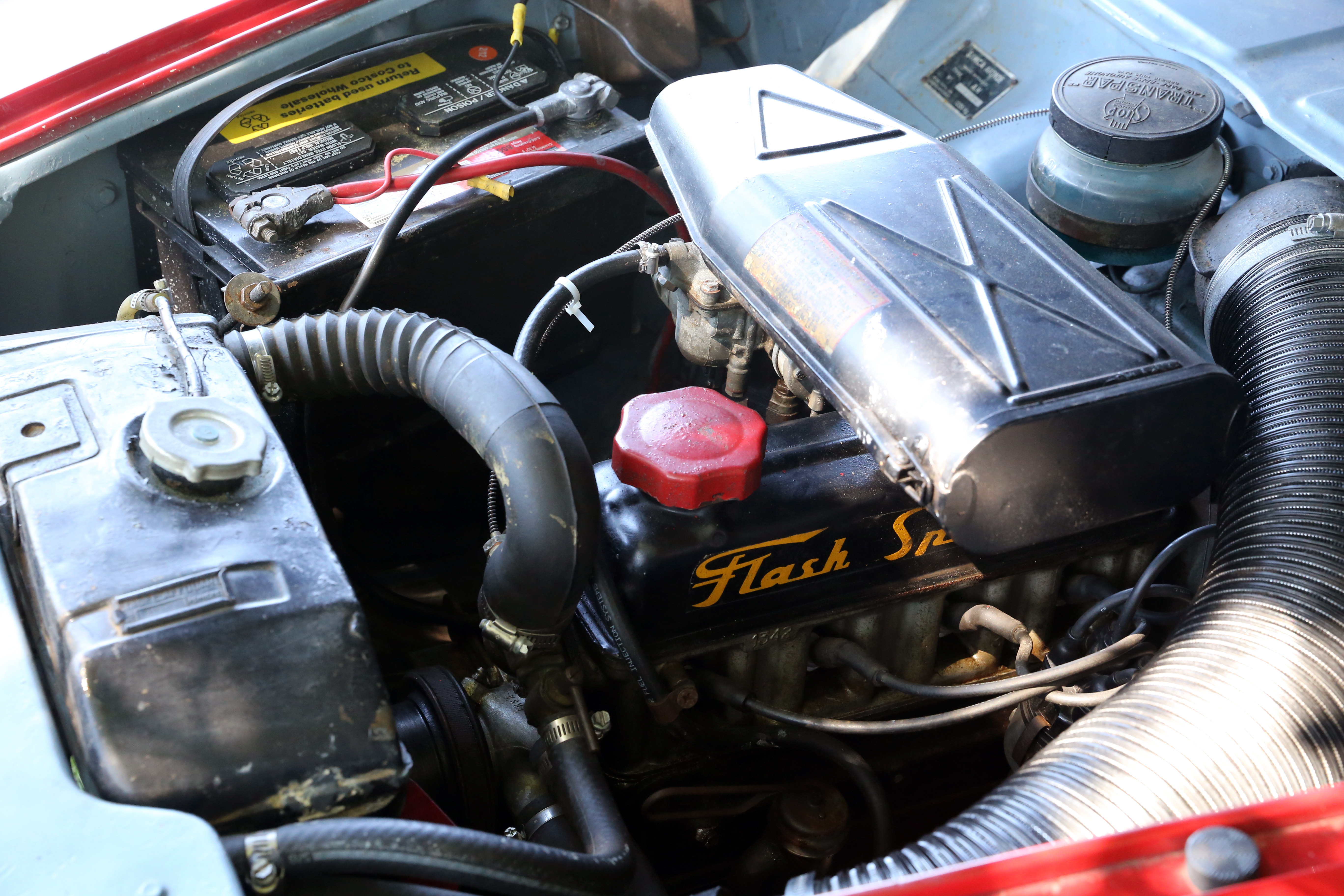 Simca Flash Spécial engine in a 1959 Simca Aronde P60 Océane at a classic car show in Water Mill, NY. This version had 57hp when new, while this photo shows the handsome light blue original color - the car has at some point been resprayed in red.